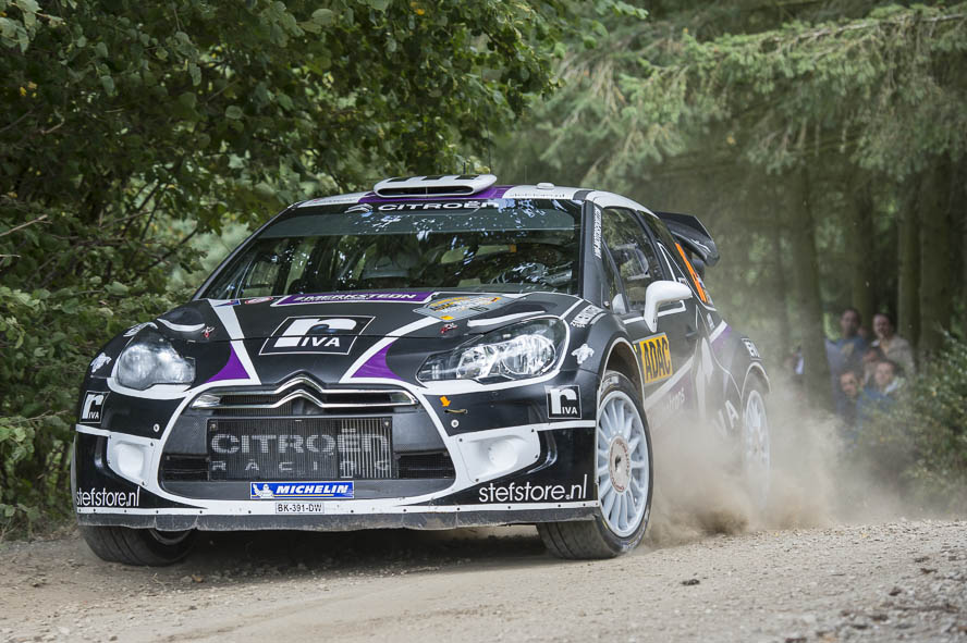 Rally Germany 2012 ADAC Rallye Deutschland,Citroen DS3 WRC,Eddy Chevaillier,Motorsport,Peter van Merksteijn Jr.,Rally,Rallye,Rallye Deutschland,SS10,Stein & Wein 2,Van Merksteijn Motorsport,WP10,WRC